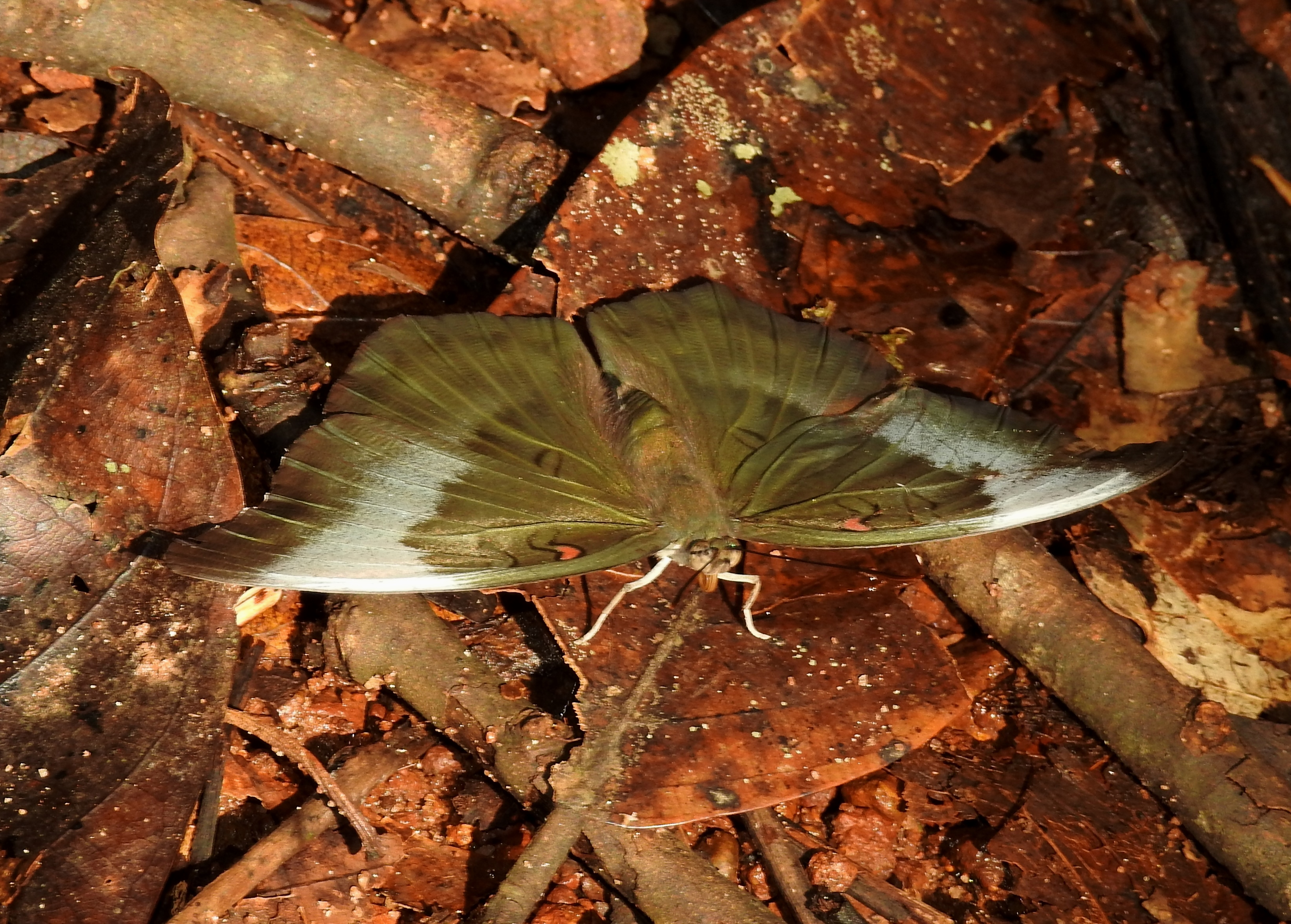 Red-spot Duke Dophla evelina. Photographed by Dr. Raju Kasambe at Belvai in Uttara Kannada district, Karnataka.